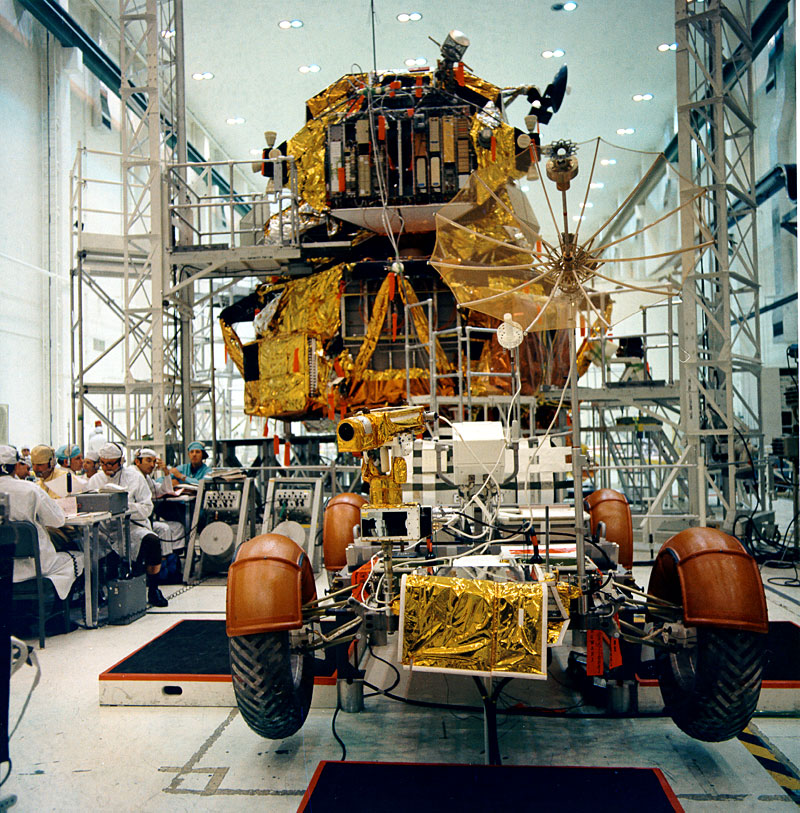 Apollo 15 Lunar Module "Falcon" (in the background) and LRV during fit check in KSC.